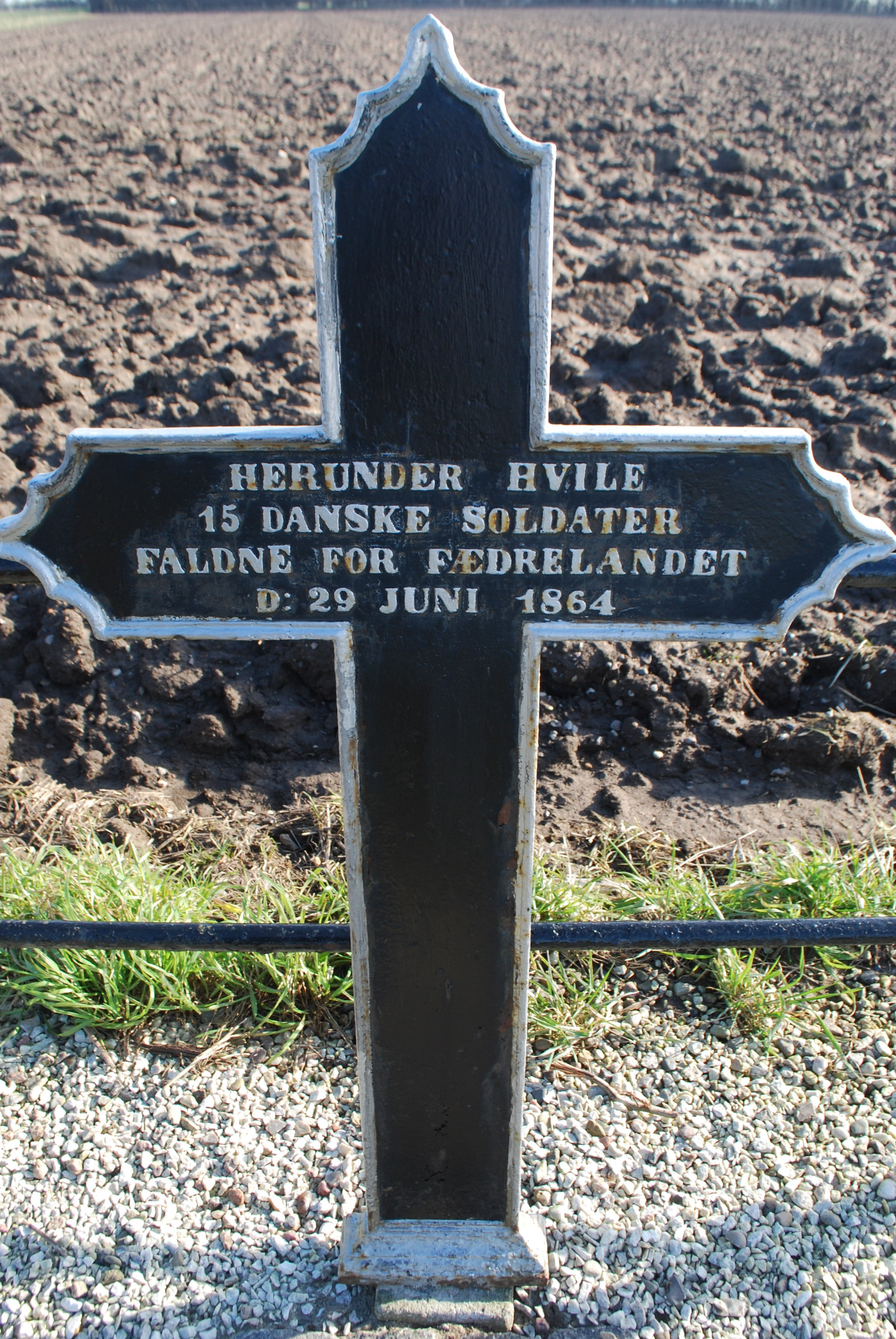 Second Schleswig War 1864.